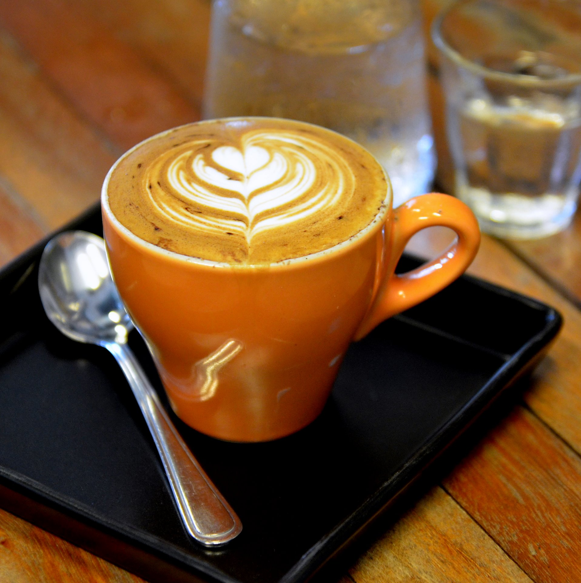 Latte art on a cappuccino at Doppio Ristretto coffee shop in Chiang Mai. The barista/owner of this coffee shop came in 6th in the category "Latte Art" at the World Barista Championship 2011 in Maastricht, Netherlands.